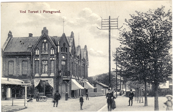 Porsgrunn. At the town square and customs house